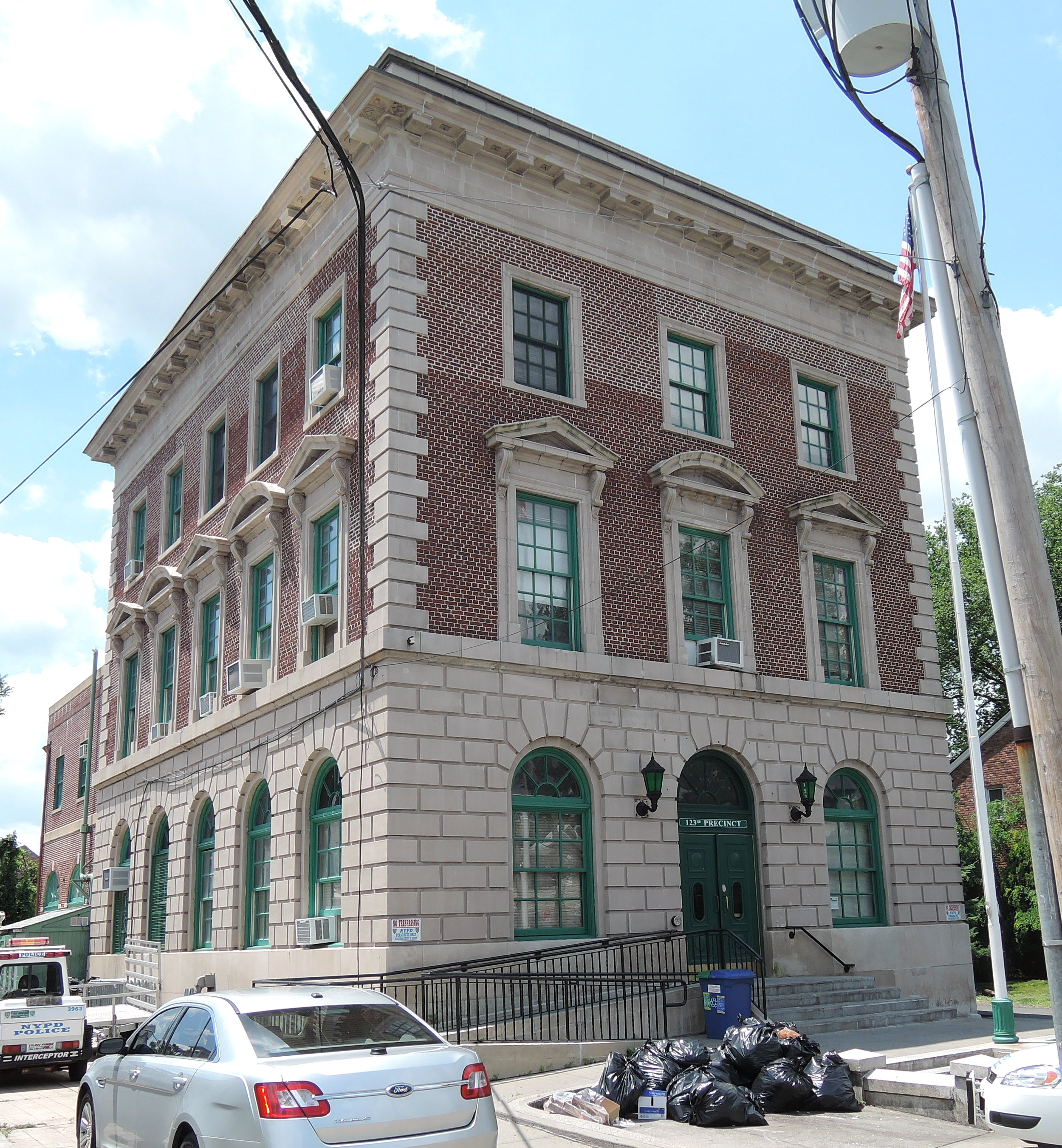 Looking west from Main Street at precinct house on a mostly sunny midday.